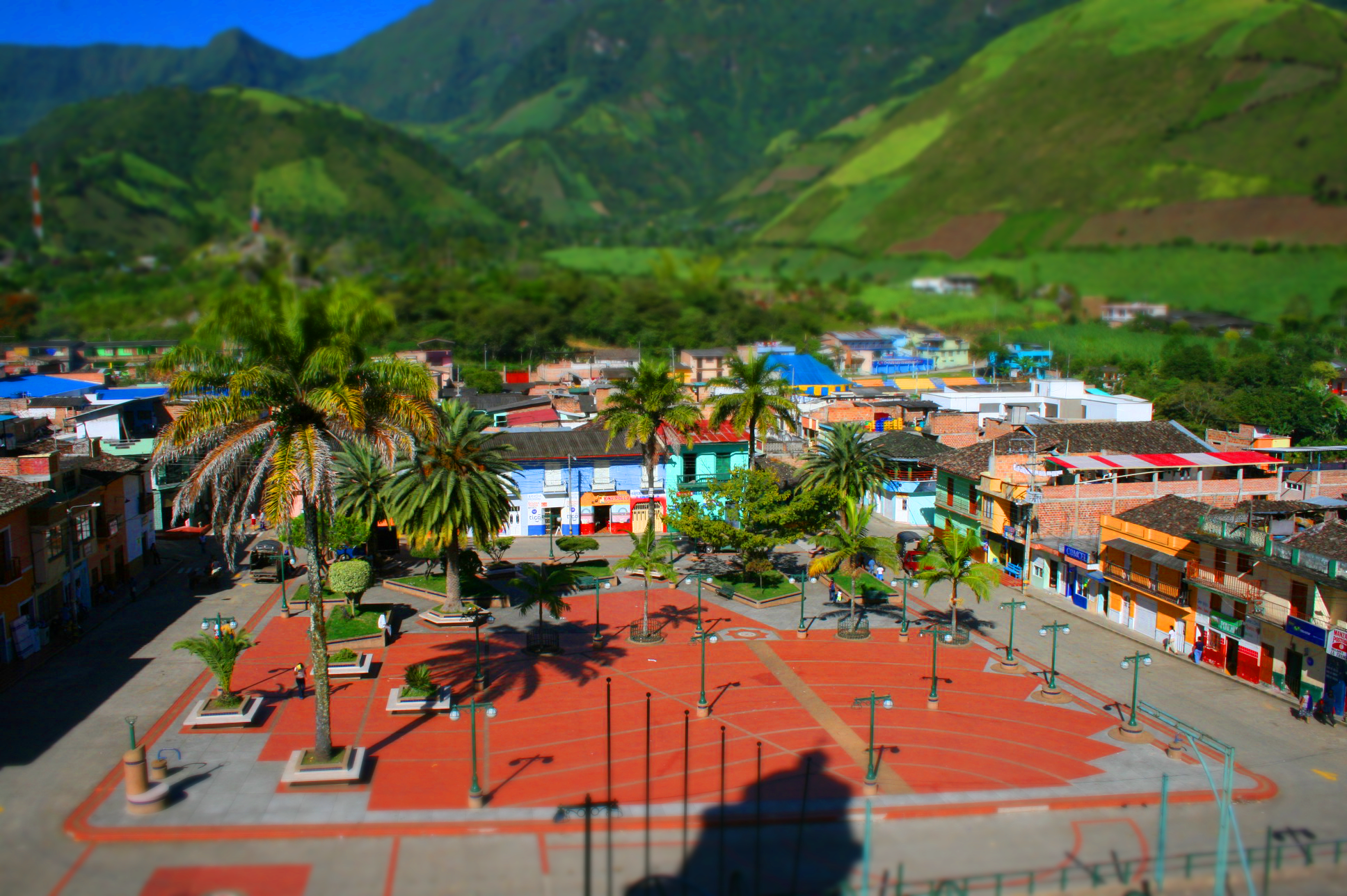 Linares - Nariño - Colombia - Using Tilt-Shift technique on software (blur filter) and color saturation